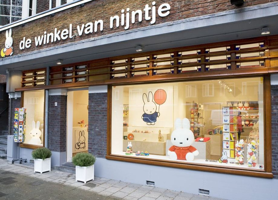 miffy's shop in Amsterdam